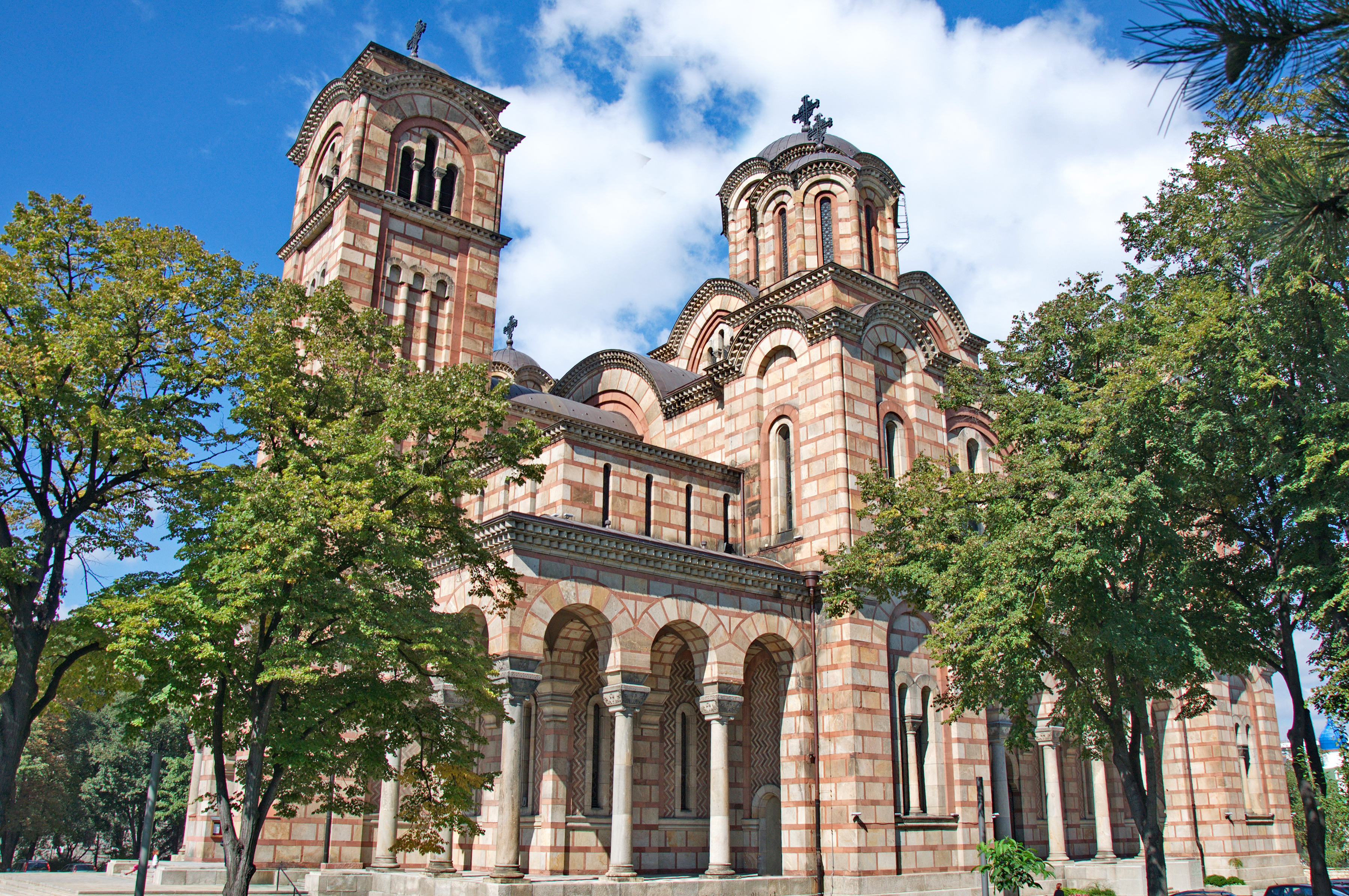 Crkva Svetog Marka na Tašmajdanu građena je od 1931. do 1940. godine u neposrednoj blizini stare crkve iz 1835. godine, prema planovima arhitekata Petra i Branka Krstića. Oblikovana je u duhu arhitekture srpsko-vizantijskog stila. Po opštem graditeljskom rešenju, arhitektonskim formama i polihromiji fasada, ovaj hramje najsrodniji manastiru Gračanici. Opremanje i ukrašavanje hrama još nije završeno.